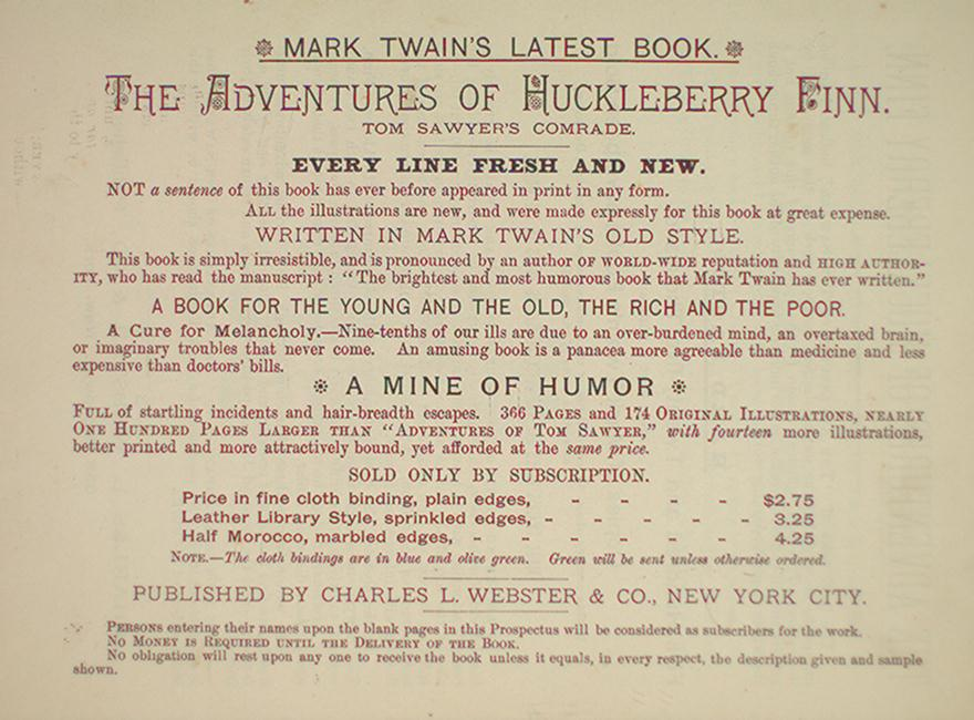 An ad for Adventures of Huckleberry Finn from the back of the sales prospectuses canvassers used to sell the book door-to-door.